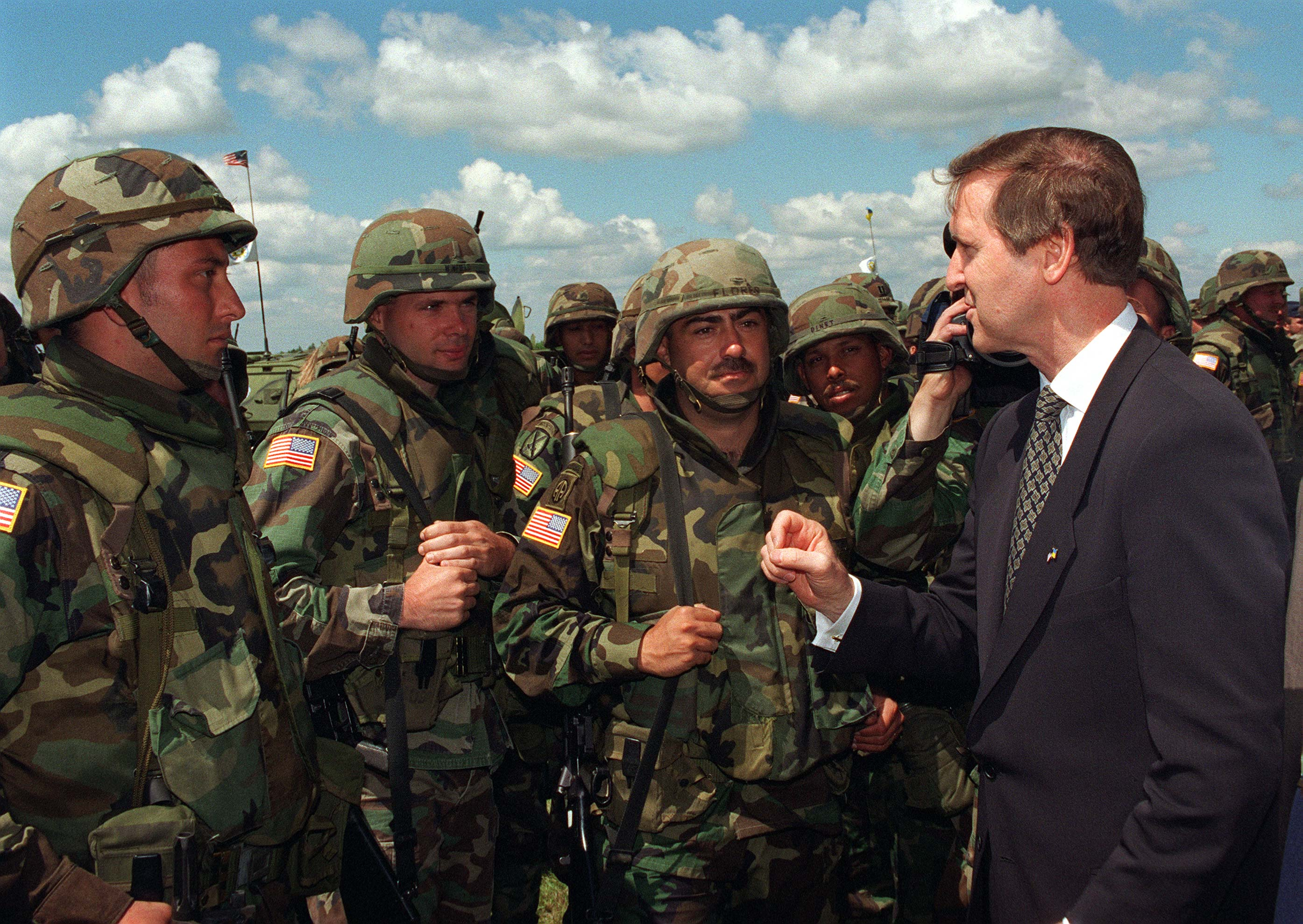 Secretary of Defense William Cohen talks with soldiers from a platoon of the 3rd Battalion, 160th Infantry (Mechanized), a unit of the 40th Infantry Division (Mechanized), of the California Army National Guard, following the closing ceremonies of the NATO Partnership for Peace training exercise Cooperative Neighbor. The California National Guard is part of the Department of Defense's State Partnership Program, which matches U.S. states with former East bloc countries. This provides the emerging democracies the opportunity to see how reserve forces are integrated into our national defense structure. Cooperative Neighbor is the first Partnership for Peace training exercise, held on the soil of the Former Soviet Union, to be fully integrated into the NATO planning process. The U.S. contingent, which included soldiers from the 1st Infantry Division, headquartered in Wuerzburg, Germany, and elements of the 86th Airlift Wing from Ramstein Air Base, Germany, as well as the California Army National Guard, joined military forces from 12 other NATO or Partnership for Peace member nations to participate in the two-week exercise. The landmark event was organized and hosted by the Ukrainian Defense Ministry in cooperation with the military forces of the Hellenic Republic of Greece --its NATO partner-nation for the exercise.